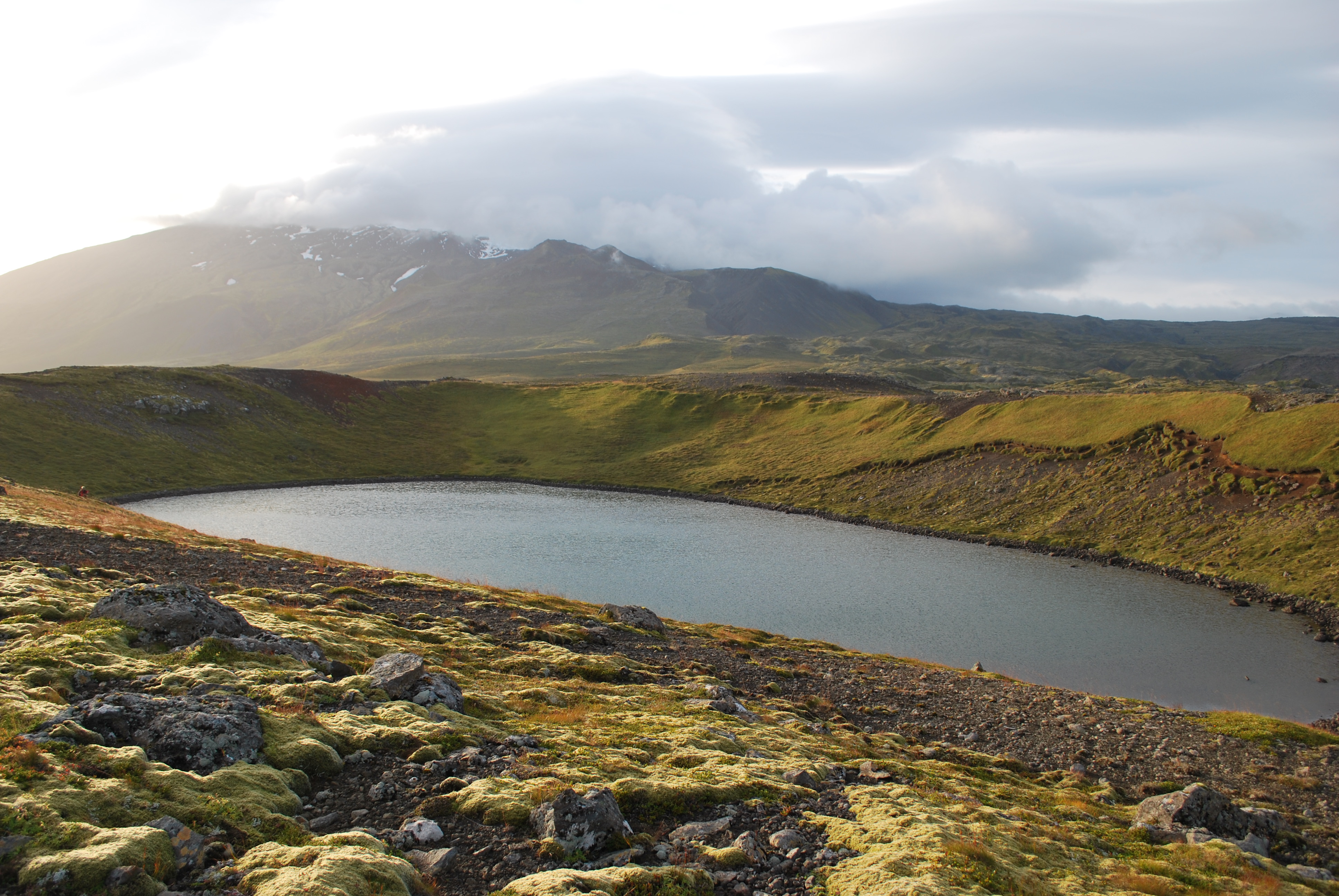 Crater lake Bardarlaug forming via volcanic explosion in Snæfellsnes area, Iceland - Google Maps - Google Earth